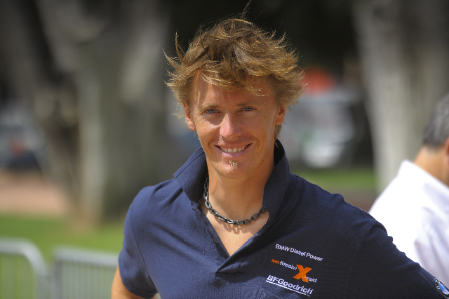 Guerlain Chicherit X-raid